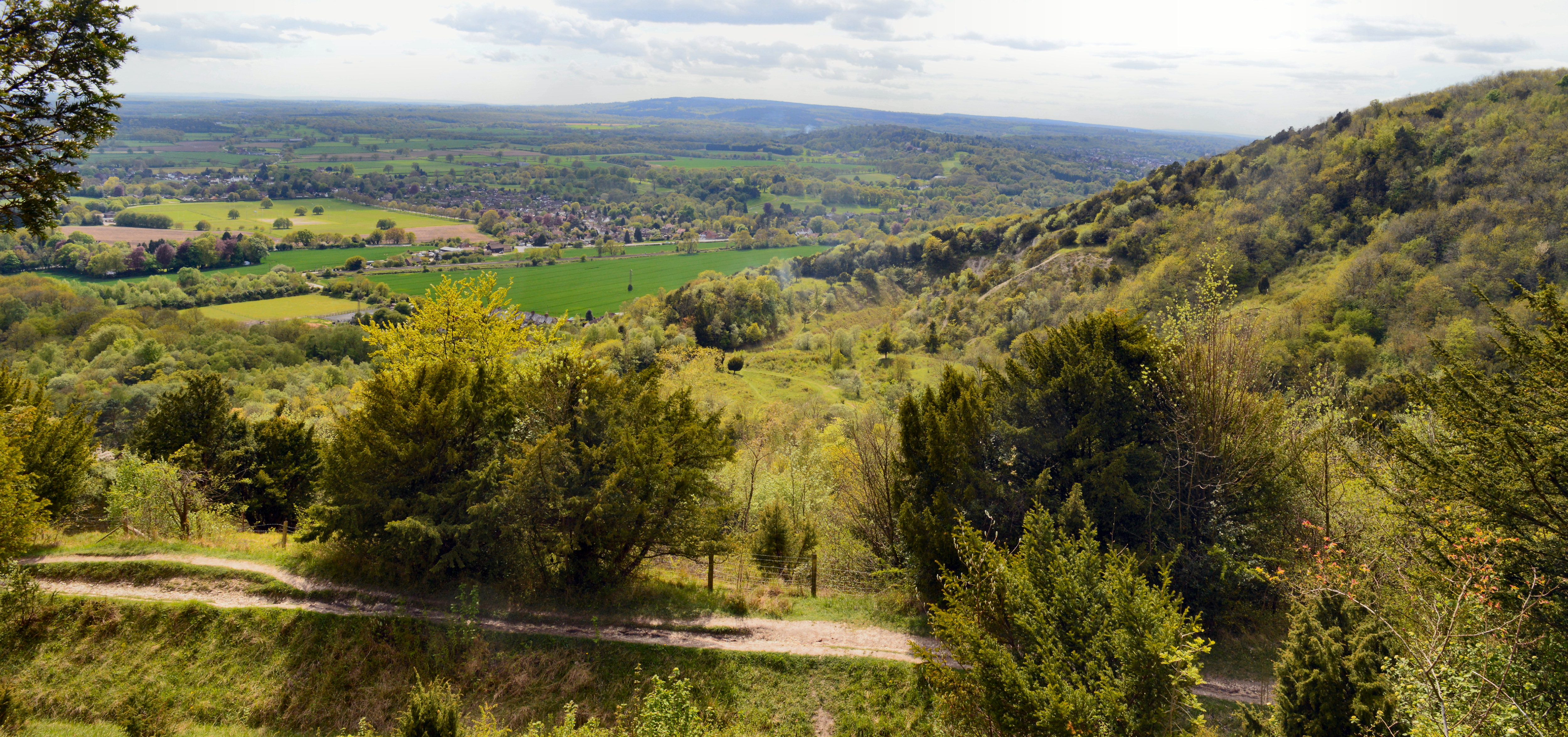 View of Brockham Lime Works from the North Downs Way